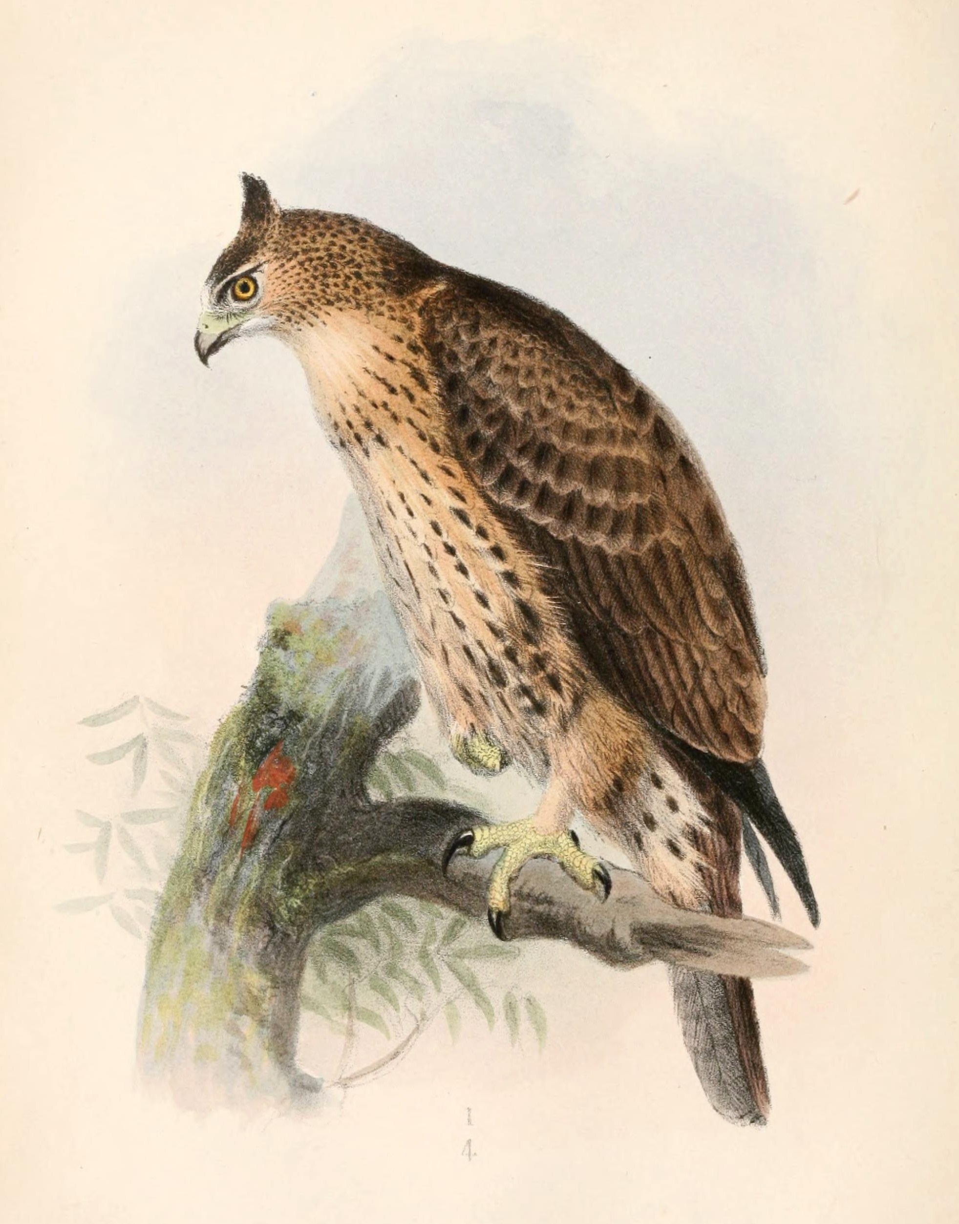 « Spizaetus ayresii » = Hieraaetus ayresii (Ayres's Hawk-Eagle)